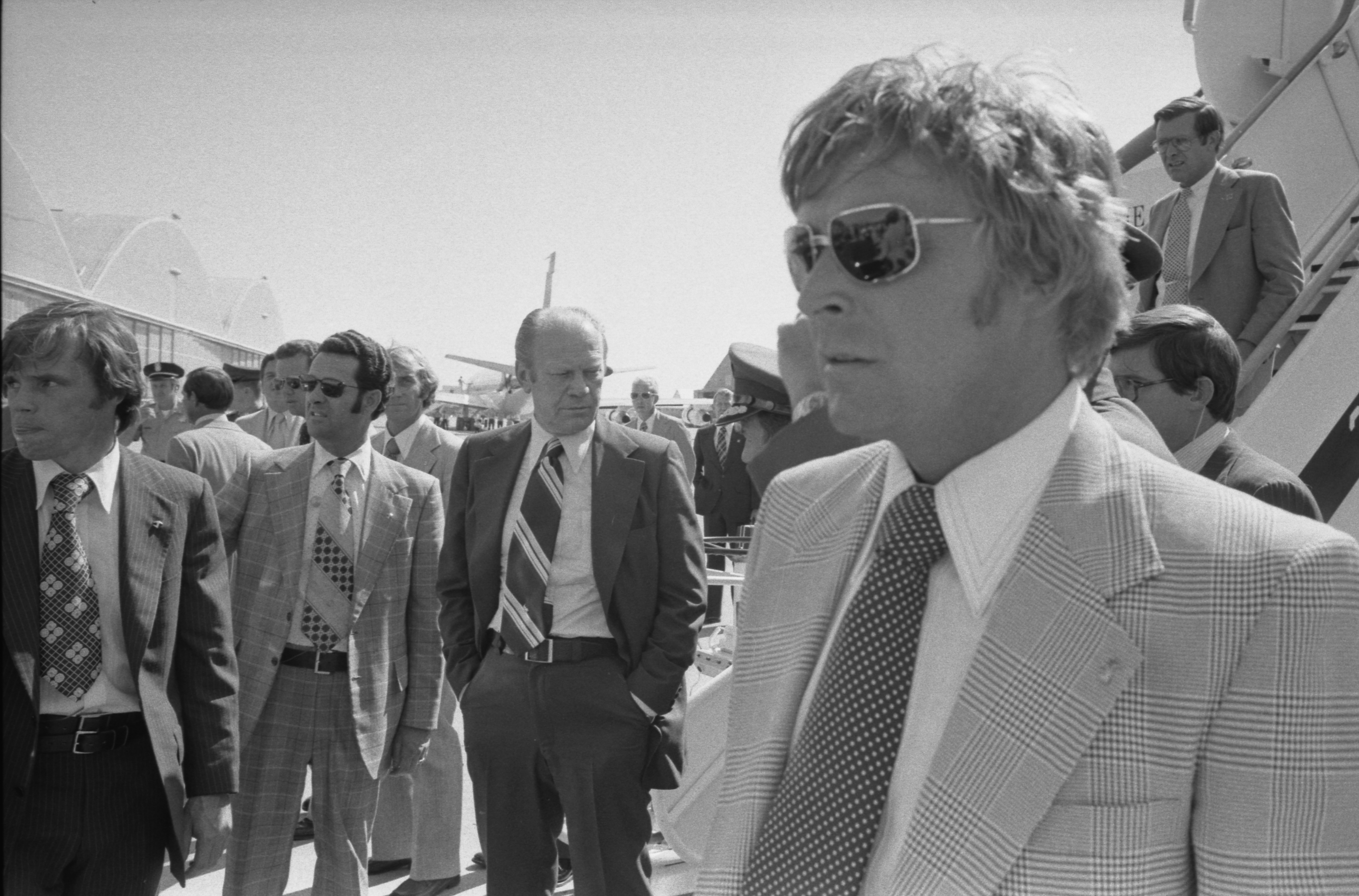 Upon arriving at McClellan Air Force Base 7 miles northeast of Sacramento, California at 3:10 PM[1] on September 5, 1975 after the 10:04 am assassination attempt by Lynette "Squeaky" Fromme on his life, President Ford waits to board Air Force One and return to Washington. Also shown are Secret Service agents, including Larry Buendorf in foreground with sunglasses, and Chief of Staff Don Rumsfeld (descending ramp of plane).